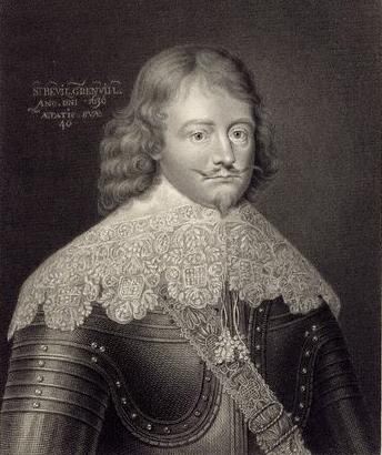 Copy engraving portrait of Sir Bevil Grenville (1596-1643), inscribed: "Sr. Bevil Grenvill An(n)o D(omi)ni 1636 aetatis suae 40" ("AD 1636 in the year of his age 40"). Portrait by Robert Cooper, stipple engraving, probably early 19th (sic, NPG) (17th.?) century (1636); 11 1/4 in. x 8 1/8 in. (286 mm x 207 mm) paper size. National Portrait Gallery, London. Given by Henry Witte Martin, 1861. Collection reference: NPG D2807 [1]. Copy of original oil-painting at Prideaux Place, Padstow, Cornwall